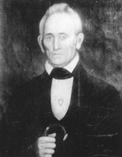 Portrait of Senator John Edwards of Kentucky